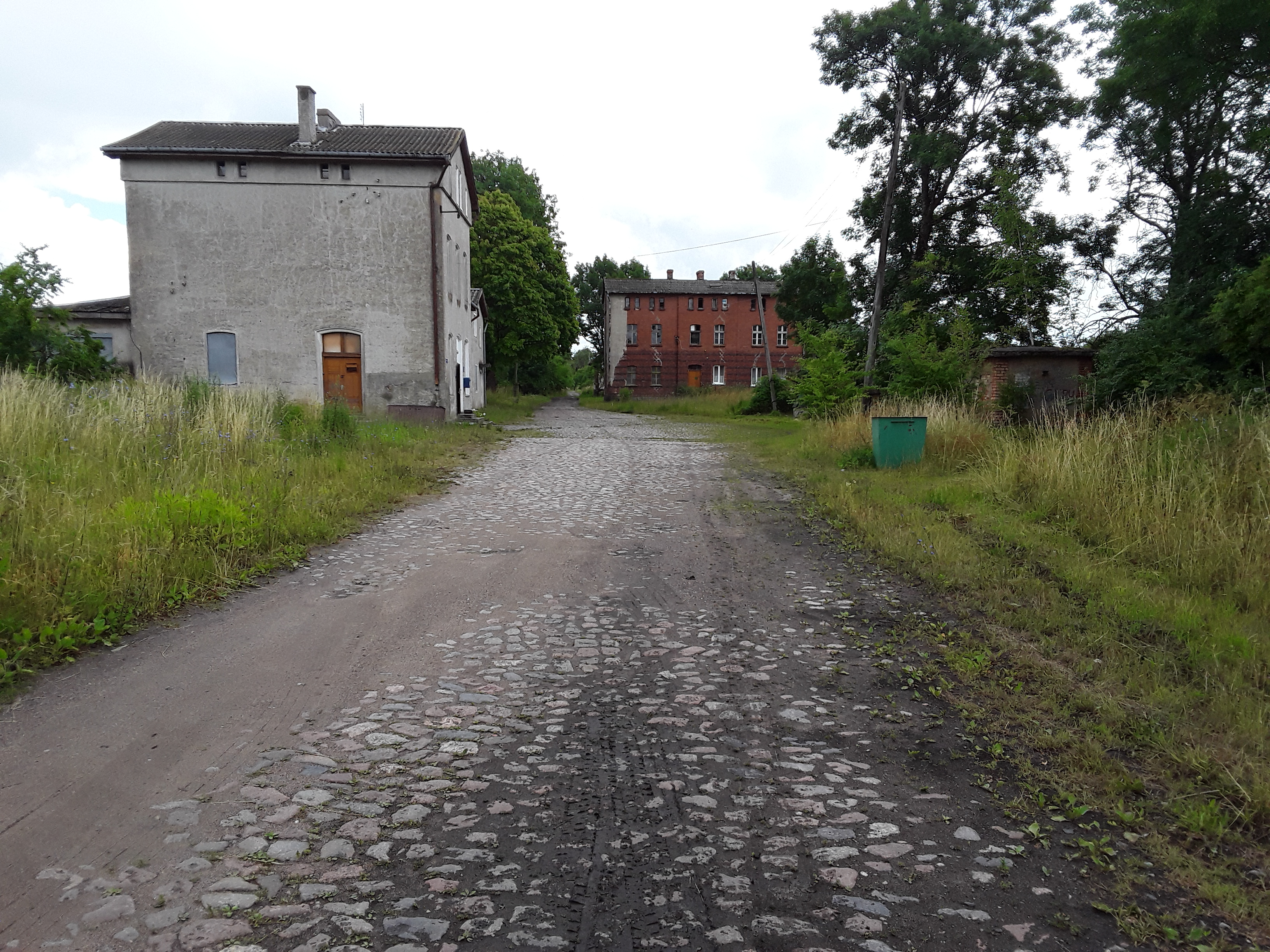 Former train station and former post office of Frunzenskoe (Bokellen in German times), Kaliningrad Oblast, Russia.